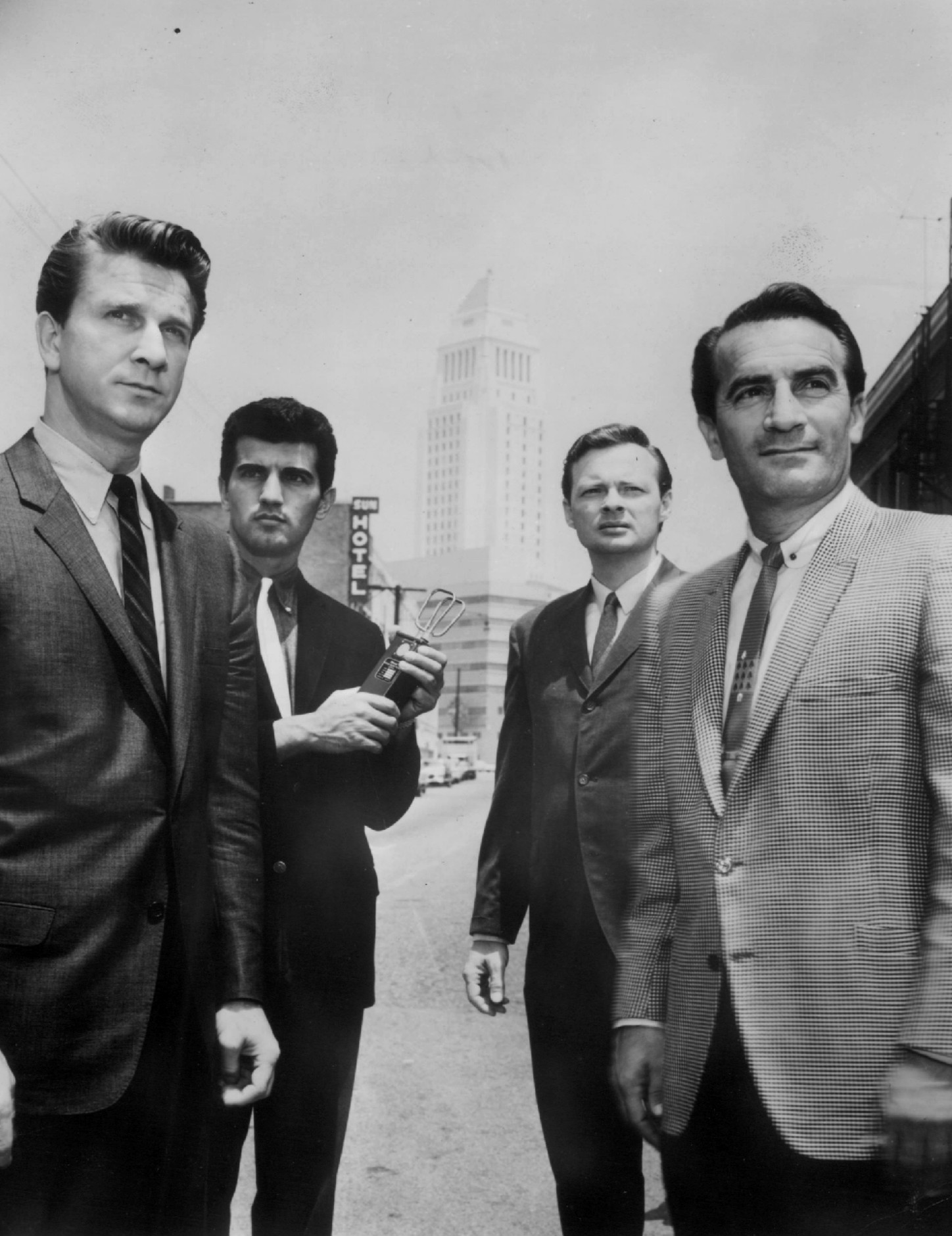 Cast photo from the television program The New Breed. From left: Leslie Nielsen as Price Adams, Greg Roman as Pete Garcia, John Clarke as Joe Huddleston and John Beradino as Vince Cavelli. This is from the premiere episode, "No Fat Cops".